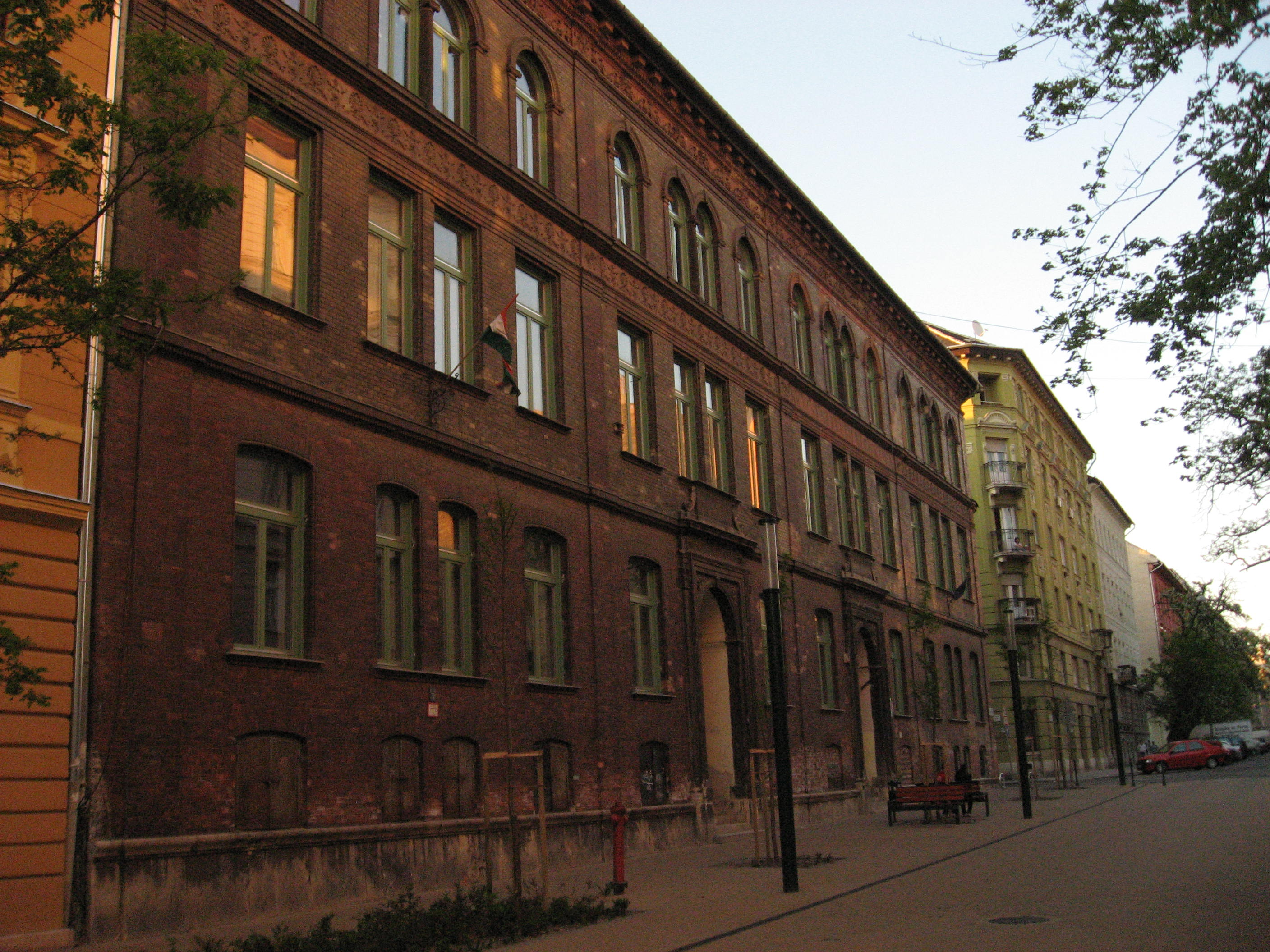 The Former Erdélyi utcai Elementary School, now Lakatos Menyhért Általános Iskola és Gimnázium, Bauer Sándor utca 6-8, Budapest, Hungary